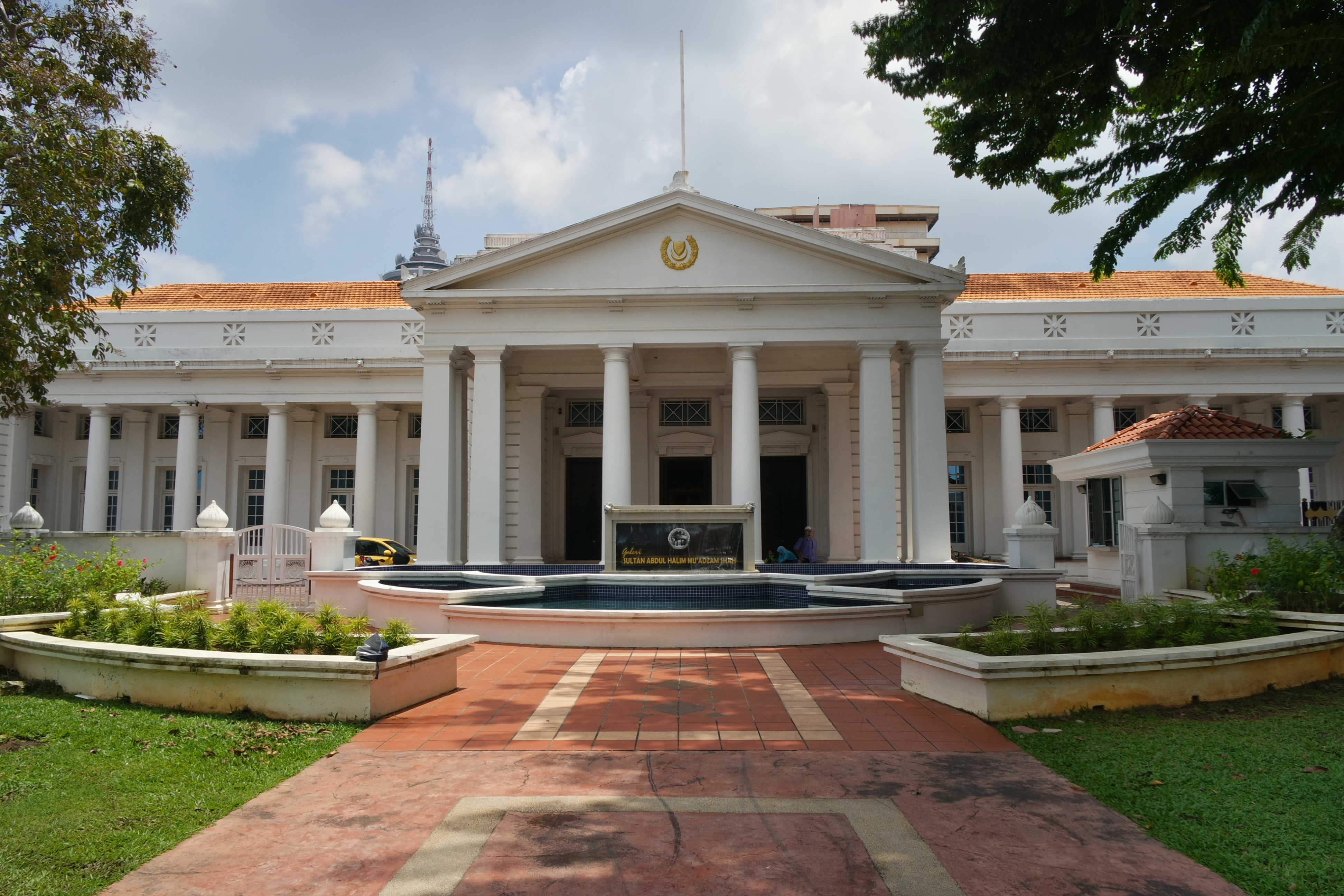 Sultan Abdul Halim Mu'adzam Shah GalleryBahasa Melayu: Galeri Sultan Abdul Halim Mu'adzam Shah